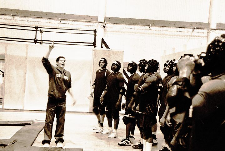 This is a picture I, Patrick Ecclesine, took of the first Slamball training camp in LA in 2002.